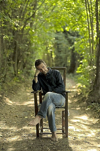 A self-portrait shot in 2010 near Iola di Montese, Italy.